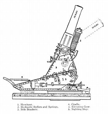 Diagram showing British BL 6 inch 30 cwt Howitzer on siege mounting, for high-angle shooting.